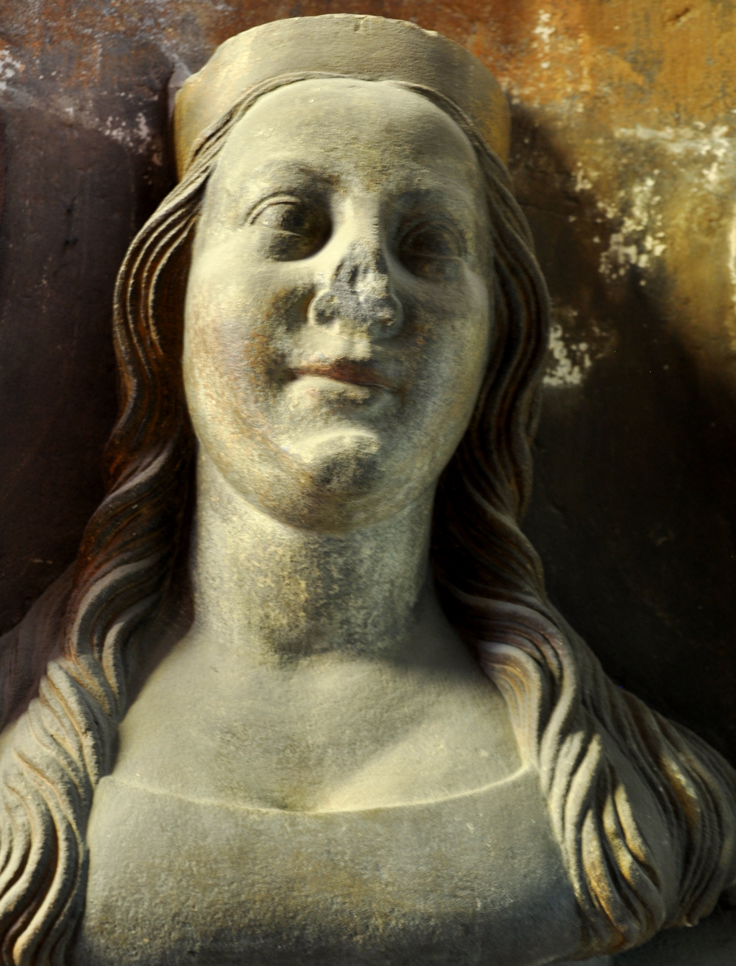 Anne of Bavaria, Queen of the Romans and Queen of Bohemia.